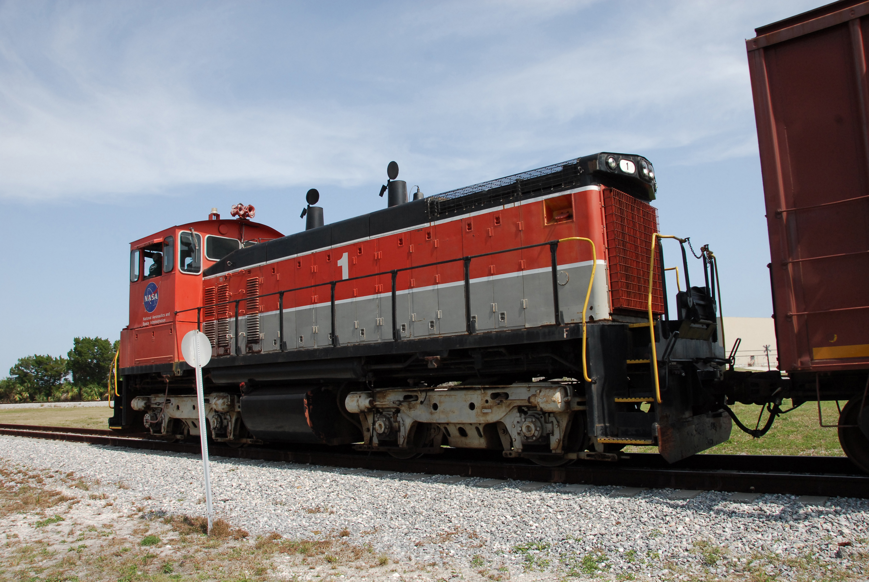 The NASA Railroad train moves along the track through NASA Kennedy Space Center's Launch Complex 39 Area. The train is hauling the solid rocket booster segments from the STS-122 mission. After a mission, the spent boosters are recovered, cleaned, disassembled, refurbished and reused after each launch. After hydrolasing the interior of each segment, they are placed on flatbed trucks. The individual booster segments are transferred to a railhead located at the railroad yard. The covered segments will be moved to Titusville for interchange with Florida East Coast Railway to begin the trip back to the Thiokol plant in Wasatch County, Utah.